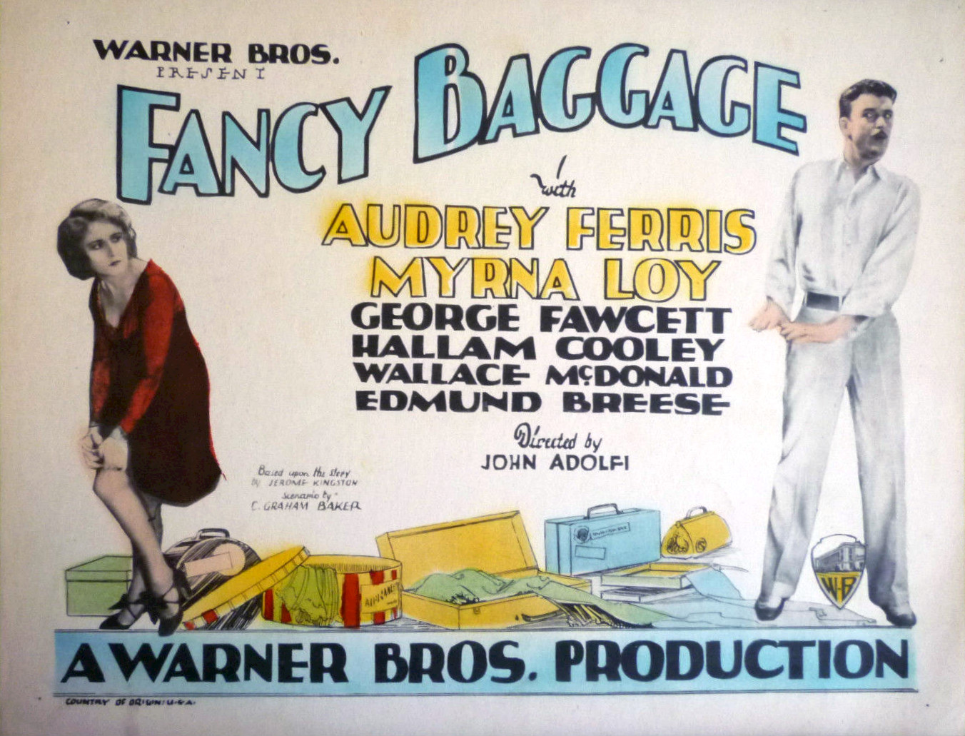 Lobby card for the American dram film Fancy Baggage (1929).